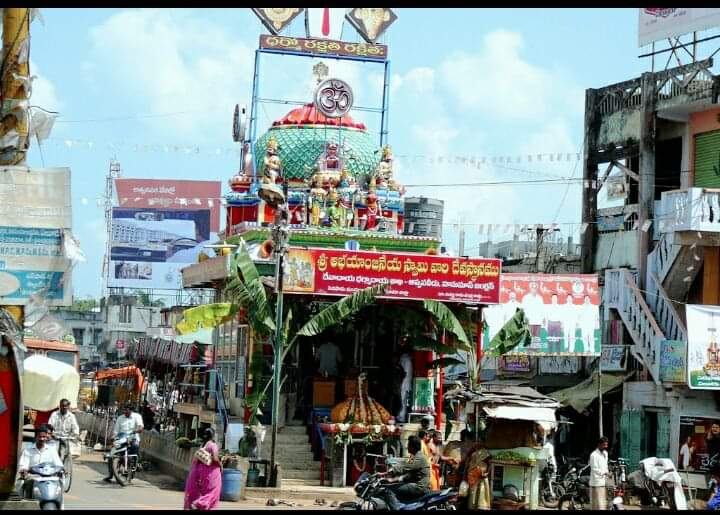 a complete overlook of temple taken in festival time looks awesome